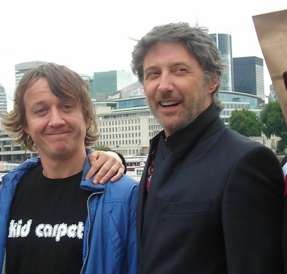 A picture of Antoine de Caunes from Flickr member Kid Carpet Photo credit Sandrine Pothe-Noir